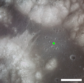 Green dot shows location of Steno-Apollo, Taurus-Littrow Valley, on the moon. Scale bar at lower right is 5 km.